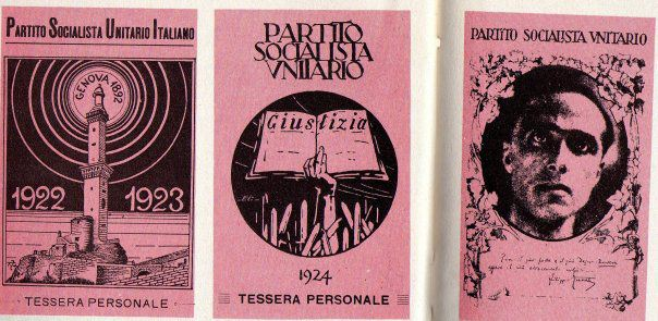 Partido Socialista Unitario membership card